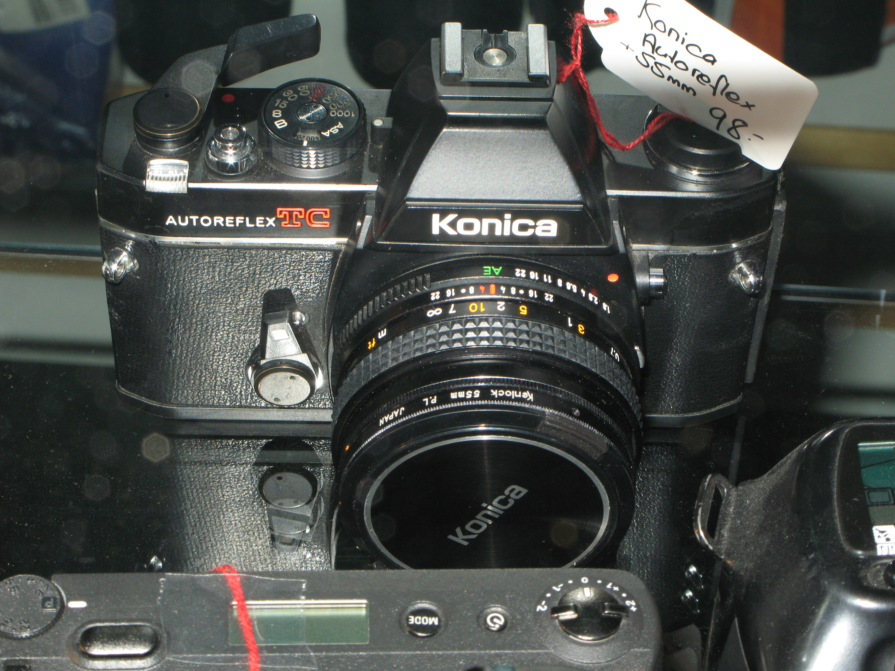 Konica Autoreflex